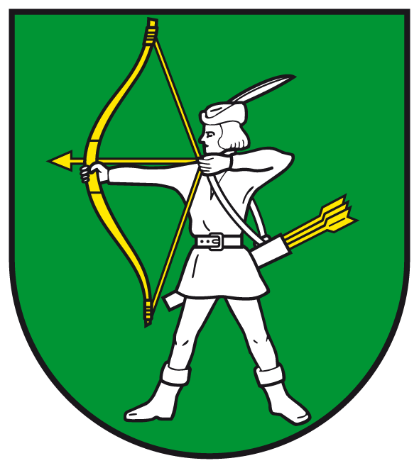 Coat of arms of Morsleben, Part of Ingersleben